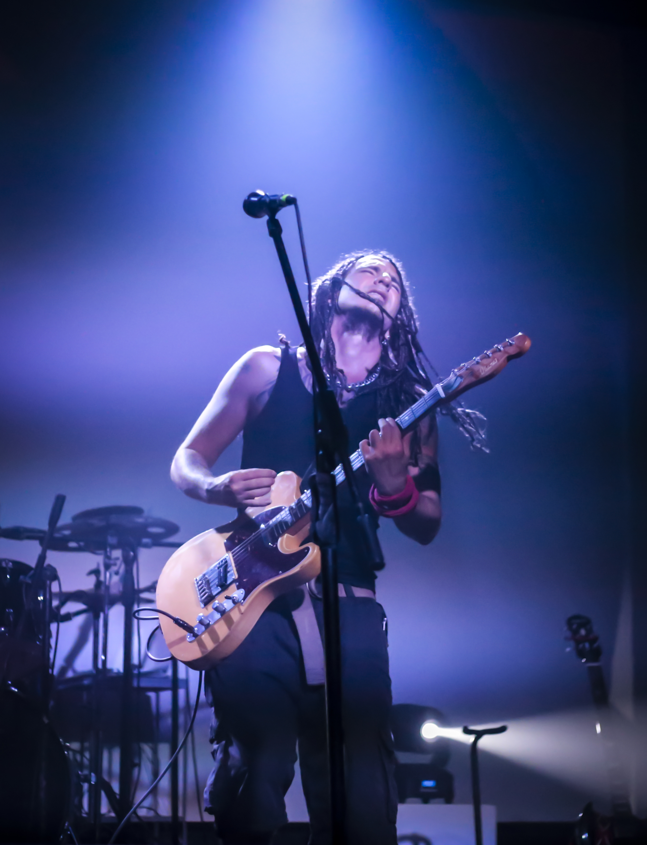 ATHANAI playing at Fabrica de Arte in Havana